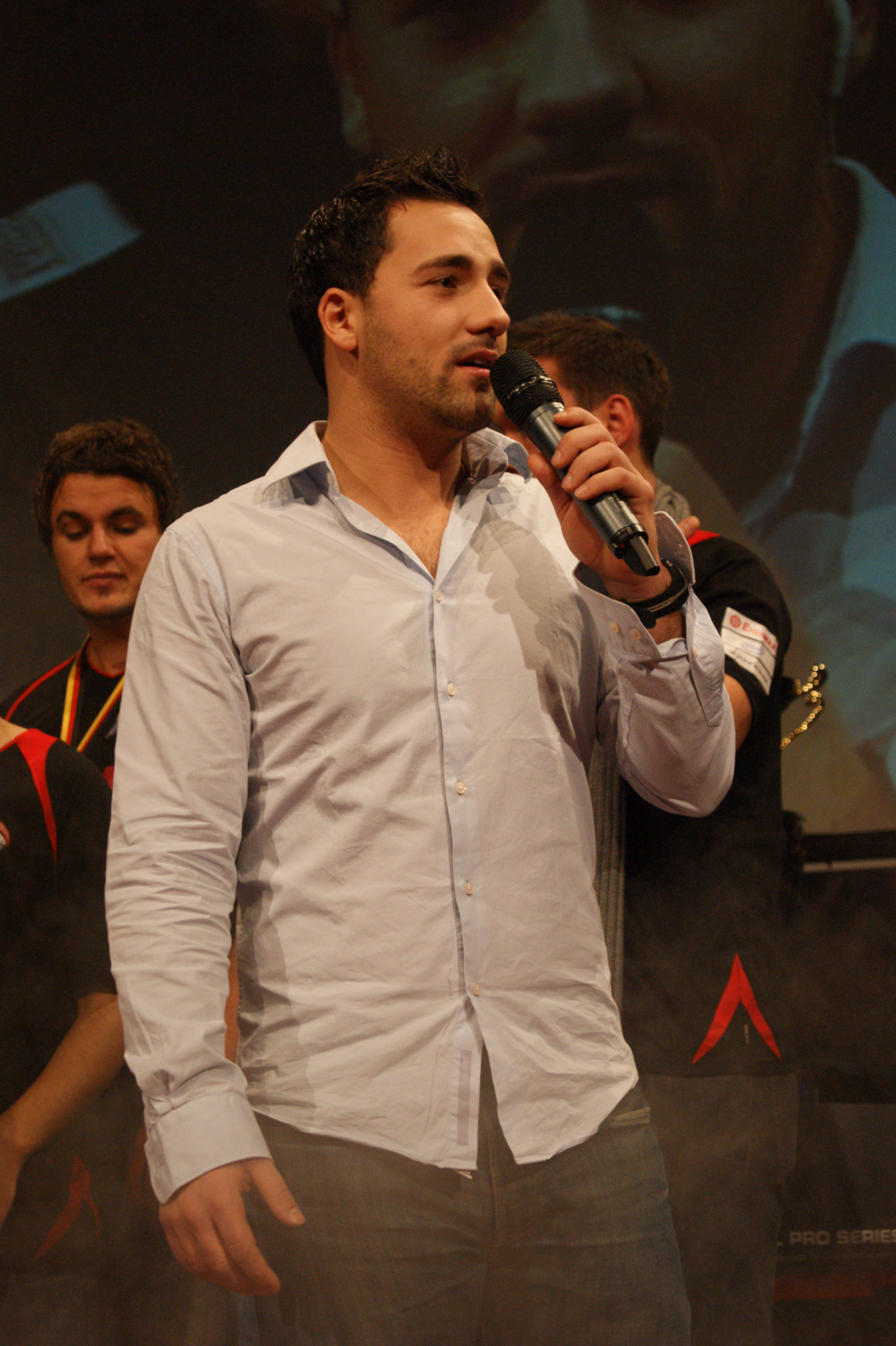 Dennis Gehlen at an IFNG